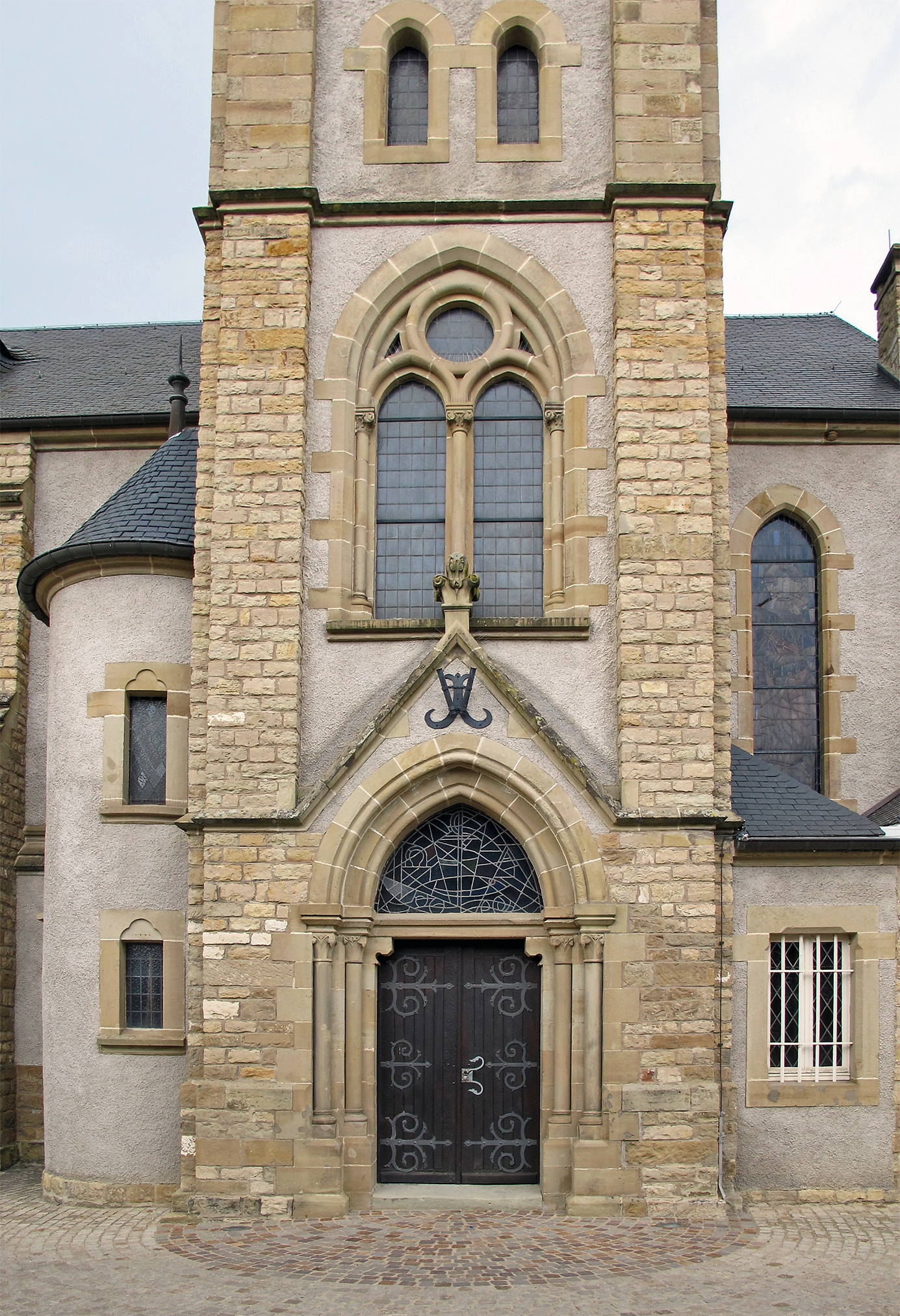 Church of Machtum, Luxembourg